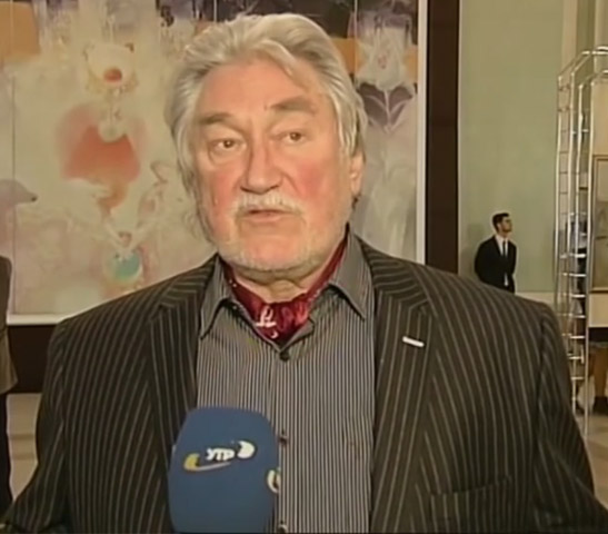 Andriy Chebykin, Ukrainian painter